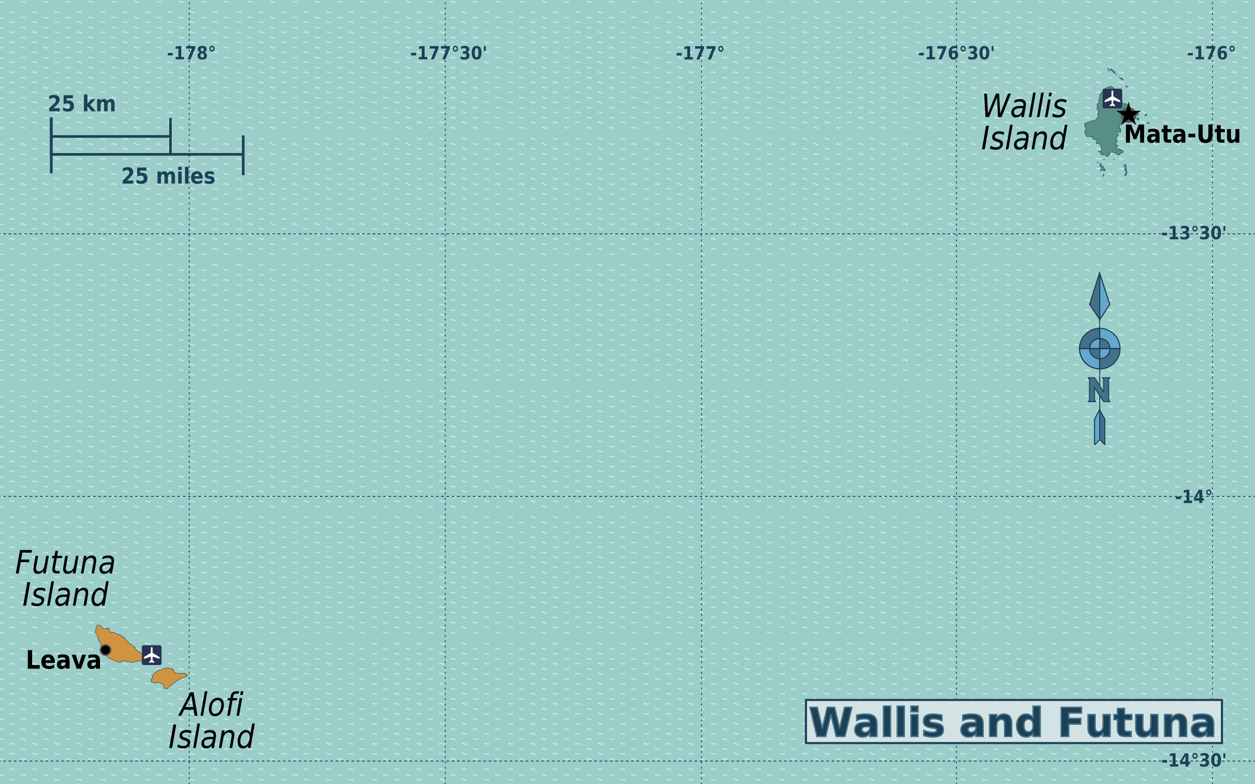 Travel map of Wallis and Futuna